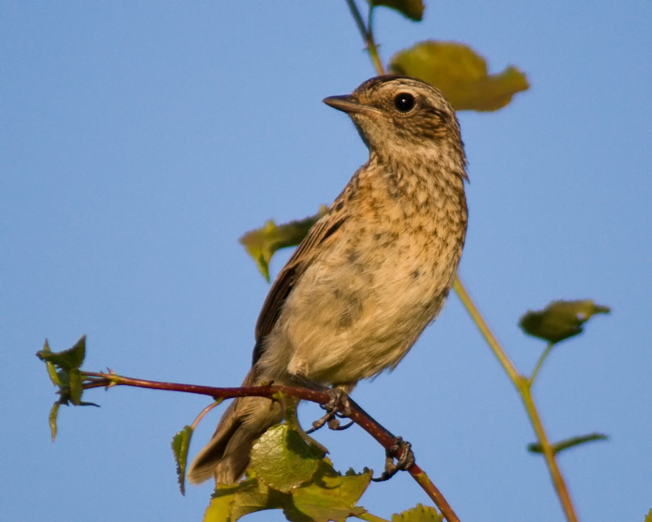 Young Whinchat. Picture was took in Russia near Dubna (Дубна). 19th of July.